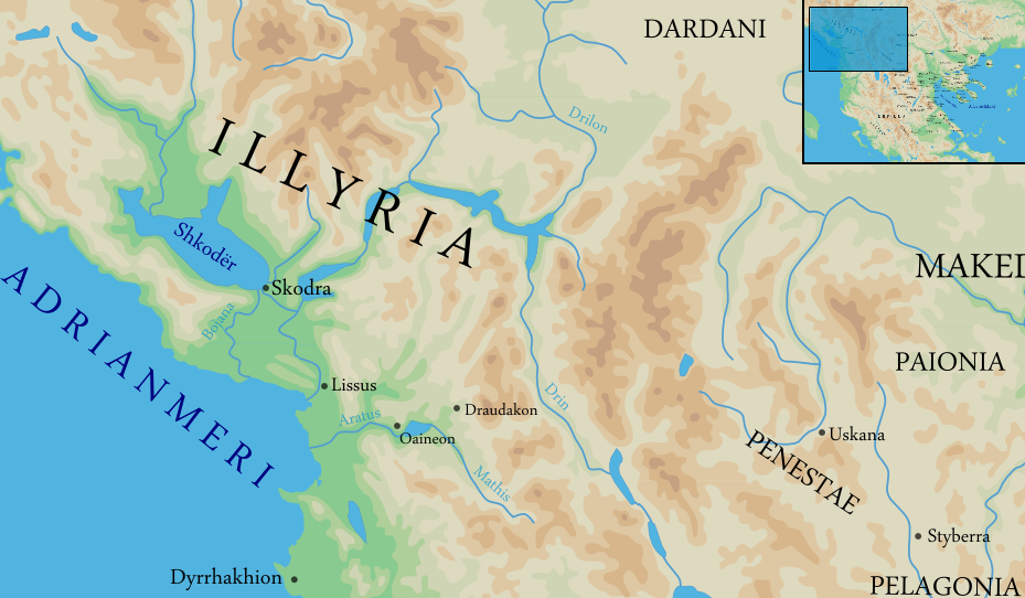 Ancient Illyria during Third Macedonian War.